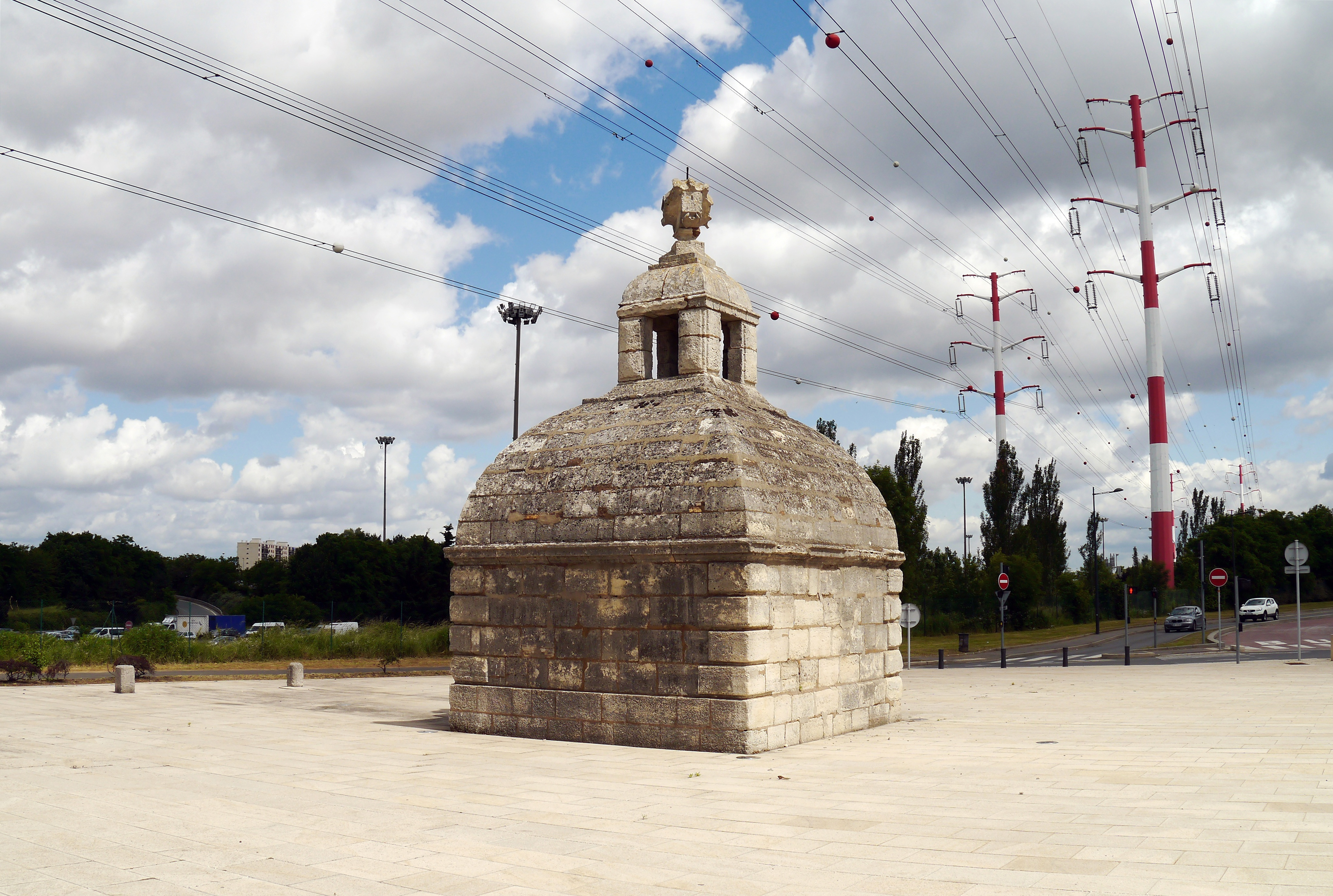 Fresnes, Val-de-Marne, France. Regard de la Loge from aqueduc Médicis.